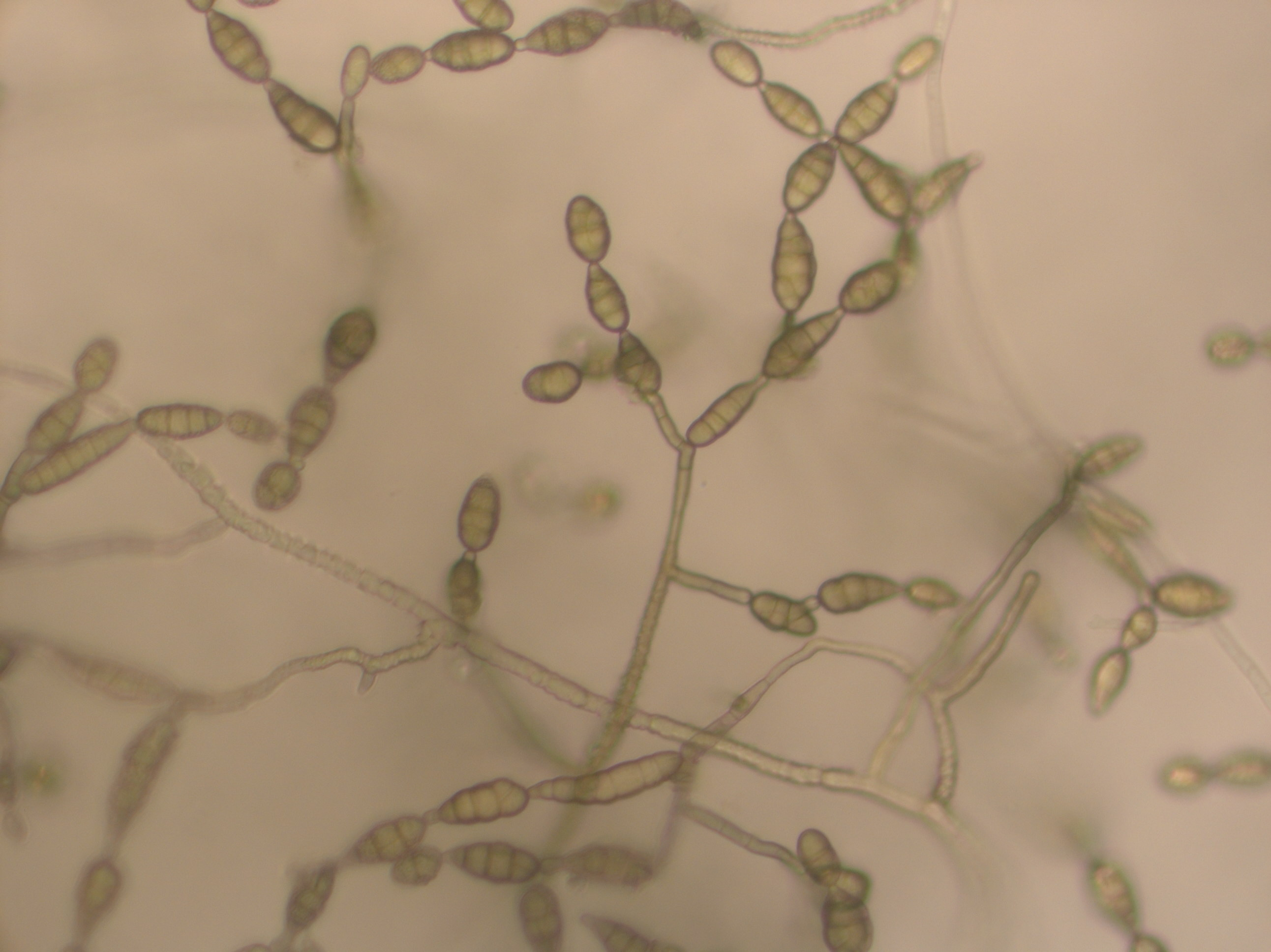 alternaria alternata spore